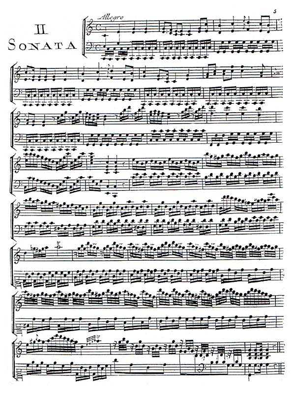 Genovieffa Ravissa, Sonata II for Harpsicord in G (Allegro) first page. Pub. Paris 1778.